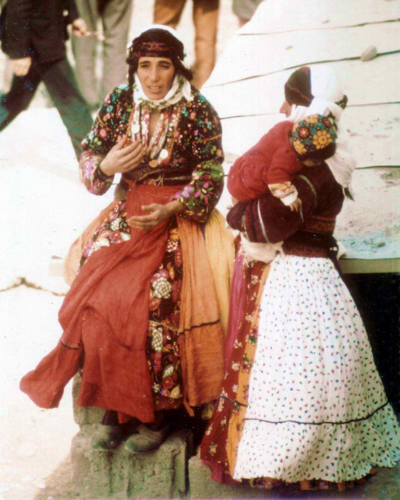 I took this photo myself in 1973. John Hill 03:29, 28 August 2007 (UTC)